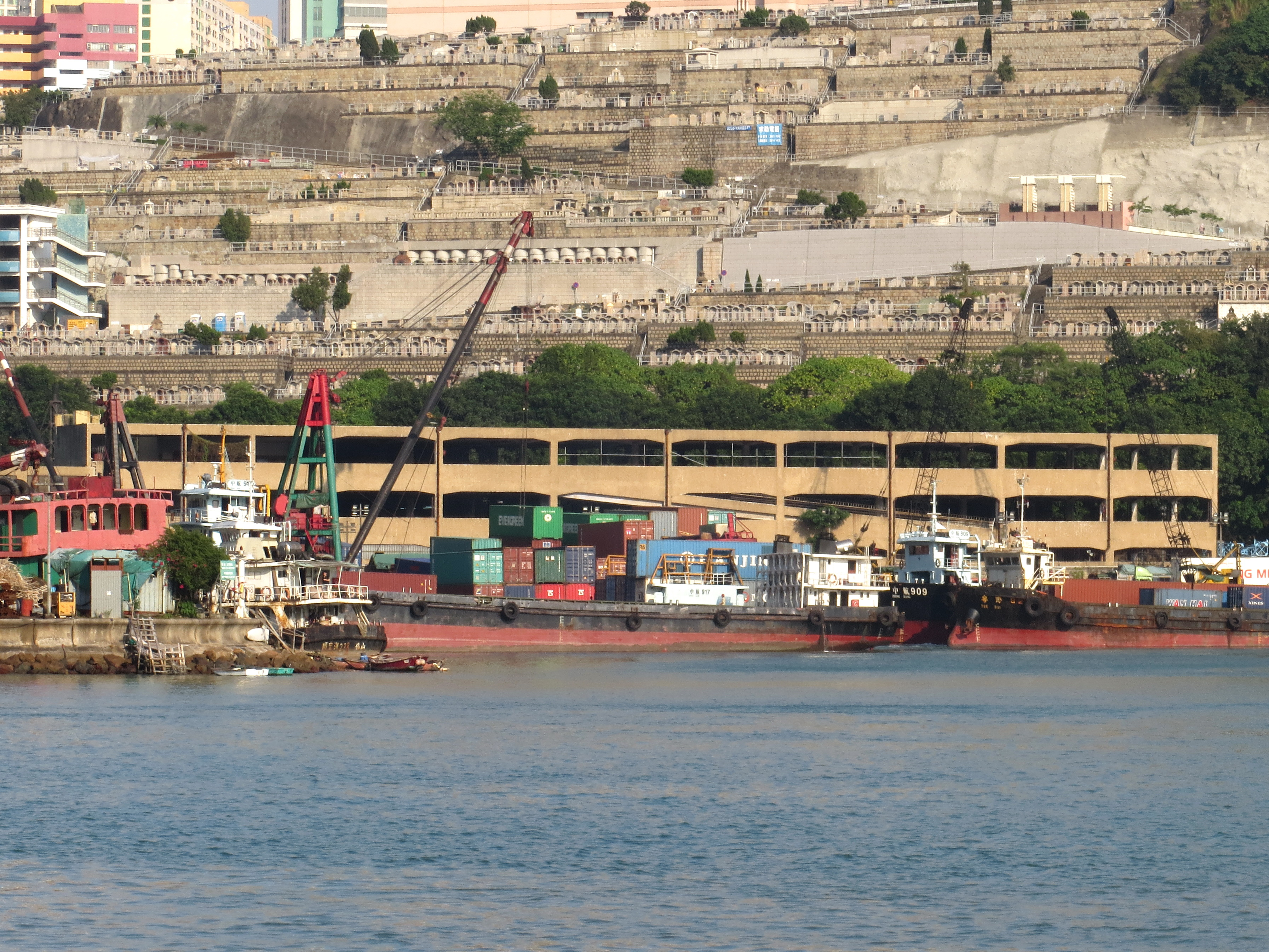 Tsuen Wan Slaughterhouse, Wing Shun Street, Tsuen Wan, New Territories, Hong Kong. The background is the Tsuen Wan Chinese Permanent Cemetery.